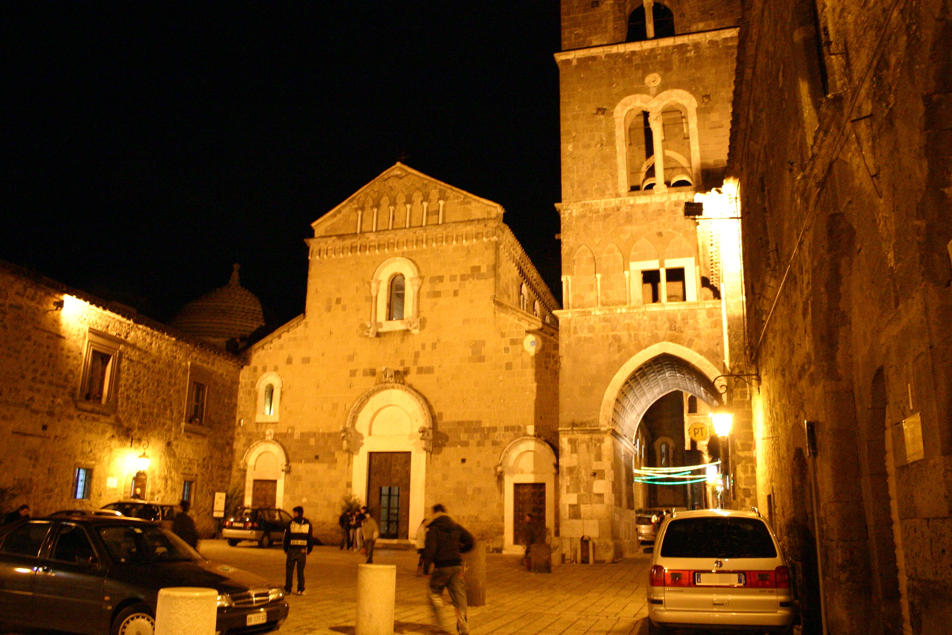 The dome of Casertavecchia in the night.